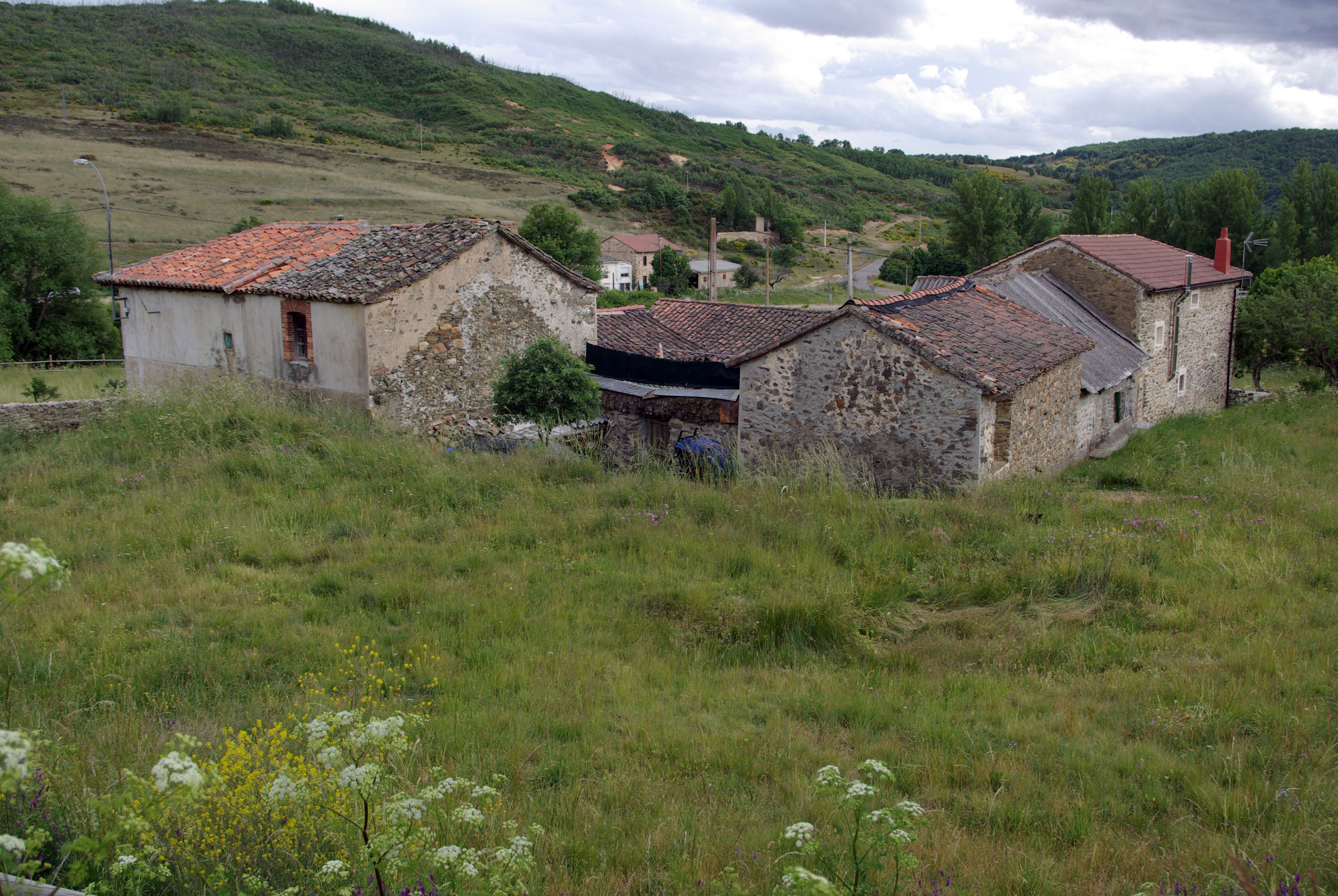 Orrios (Riello León, Spain).